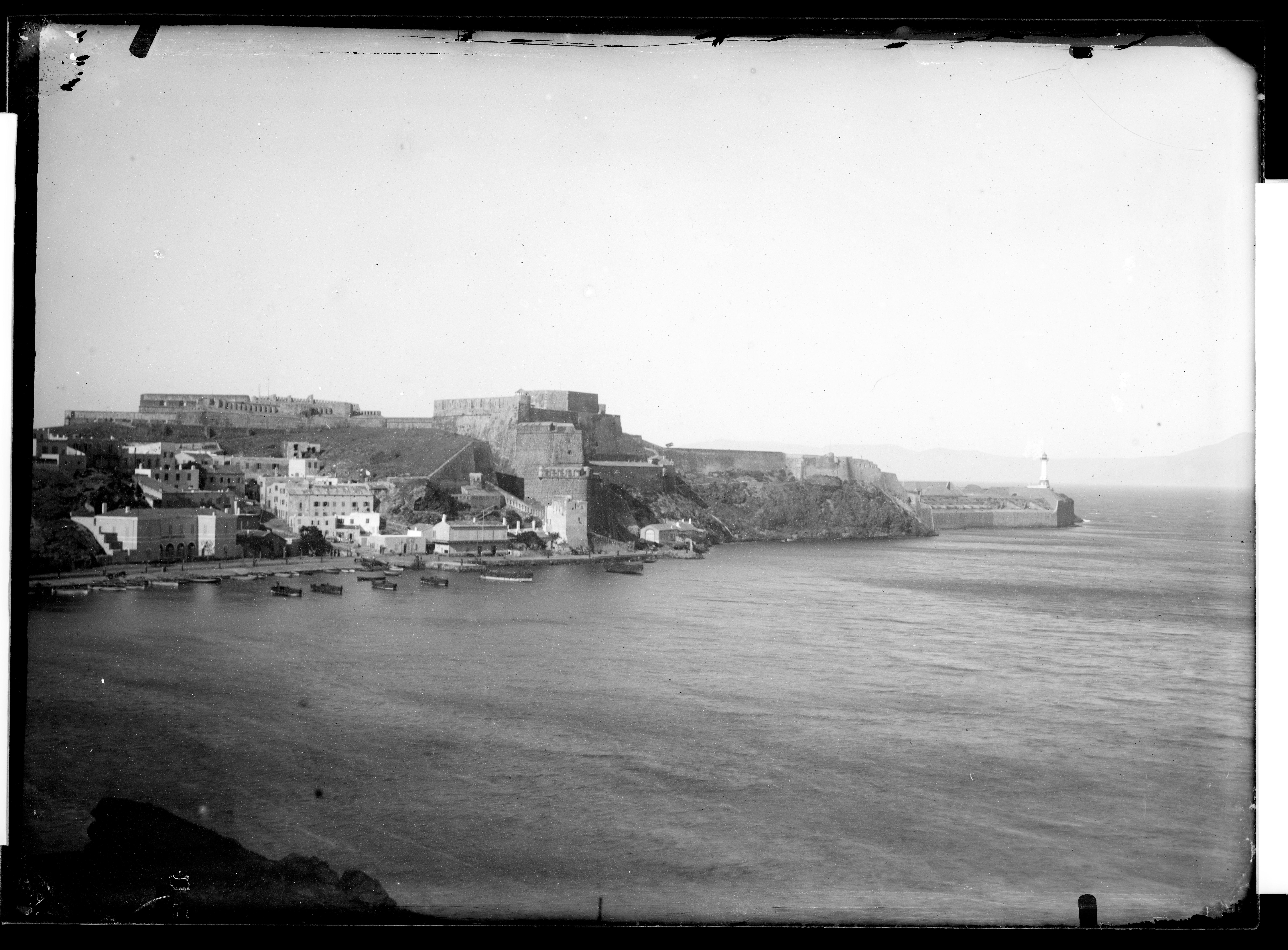 handwritten inscription of Eugène Trutat : " Algérie - Mers el Kébir avril 1881 hemisph. Darlot " Algeria - Mers El Kebir april 1881 hemisph. Darlot .